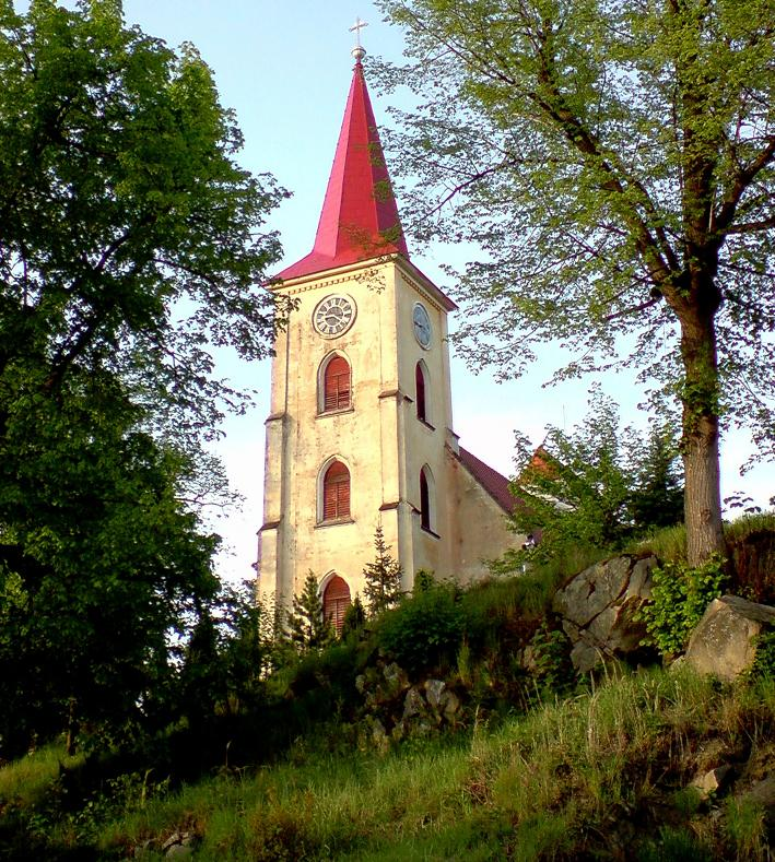 Kostelni Radoun - church Saint Vitus